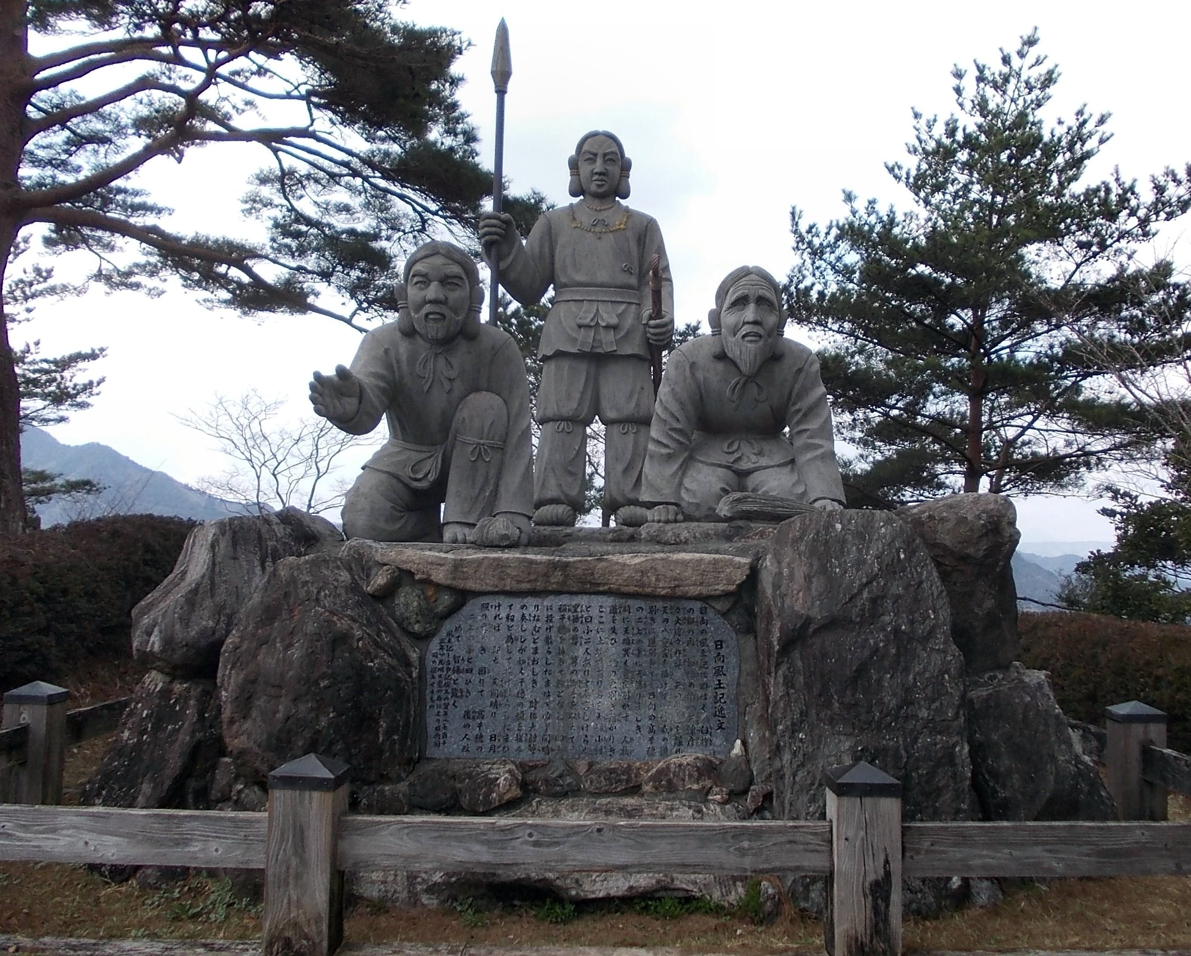 Ninigi-no-mikoto statues at Kunimigaoka Viewpoint, Takachiho, Miyazaki, Japan